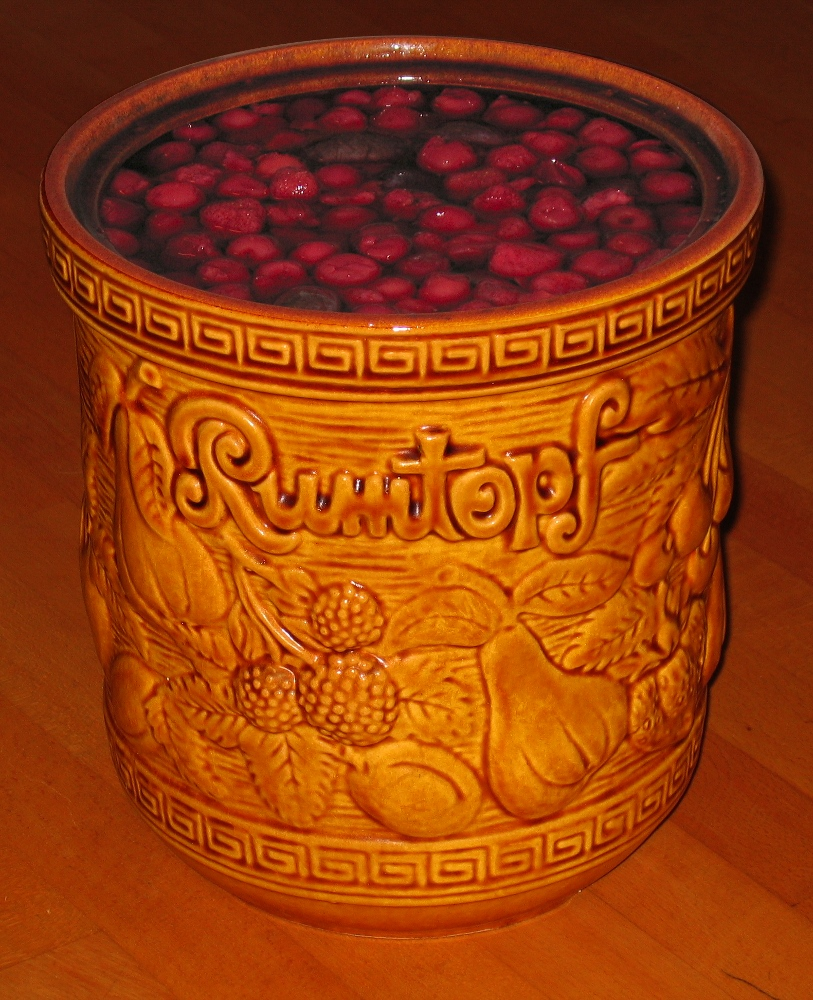 Rumtopf (German dessert) with cherrys and strawberrys